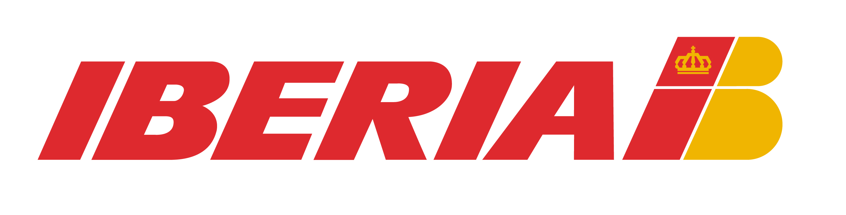 1992 logo of the Iberia airline